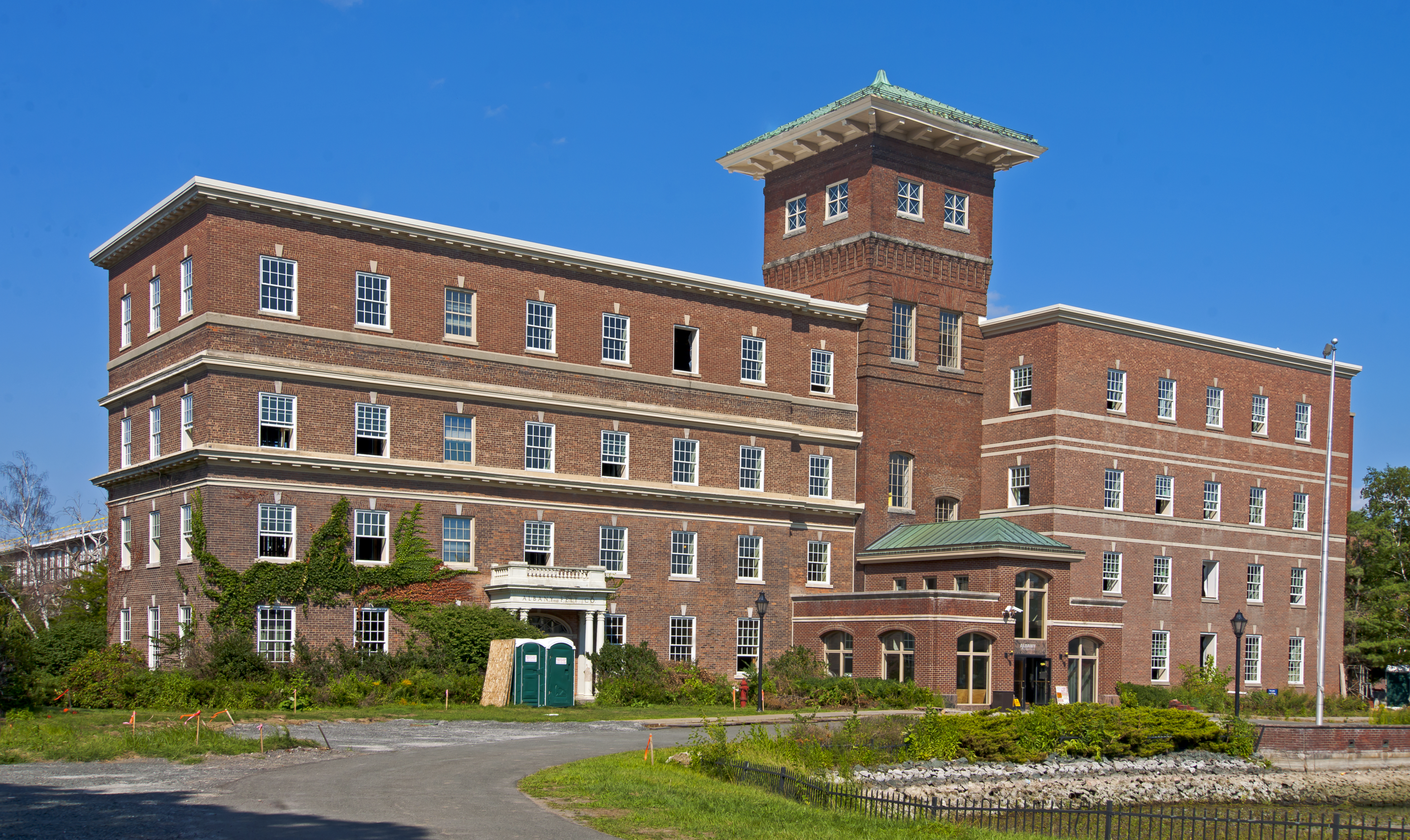 The main building of the Albany Felt Company Complex, split between the city of Albany and the town of Menands, NY, USA